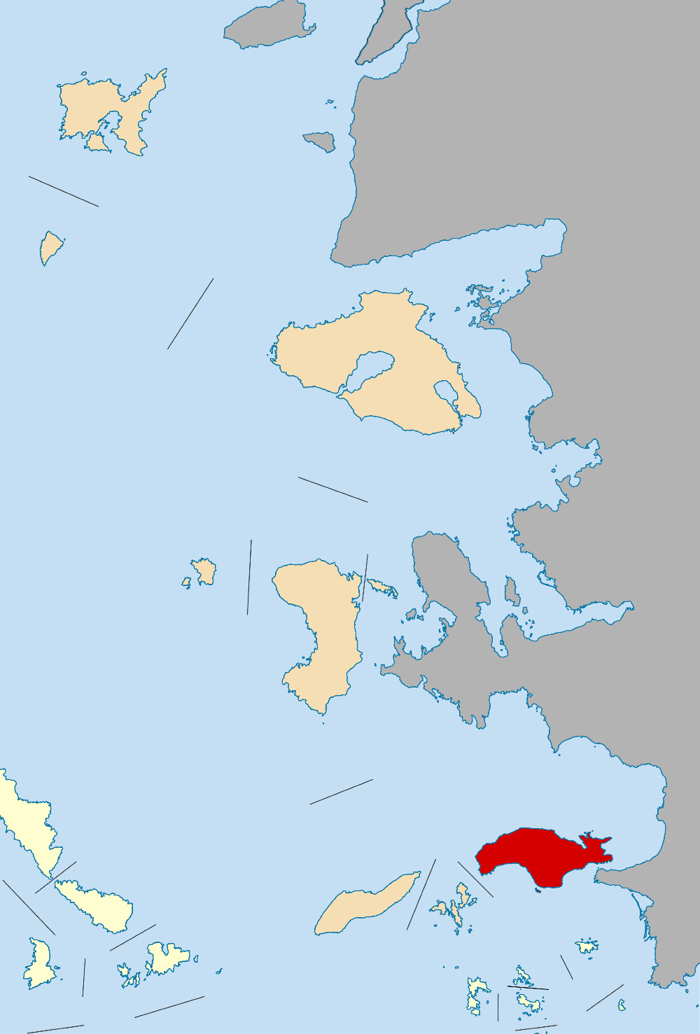 Locator map for Samos municipality in Greek region North Aegean (2011)